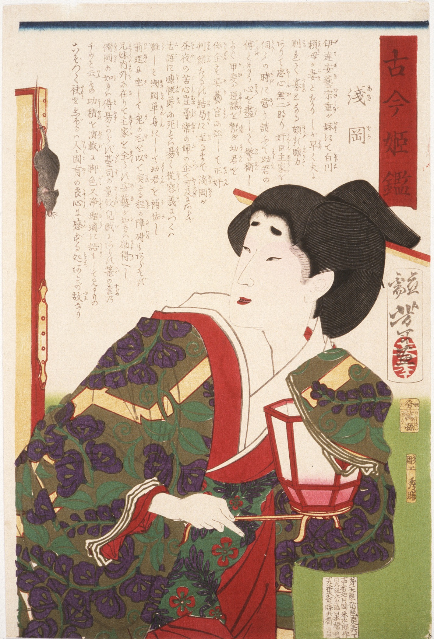 Japan, circa 1875-1876 Series: A Mirror of Beauties of the Past and Present Prints; woodcuts Color woodblock print Herbert R. Cole Collection (M.84.31.205) Japanese Art